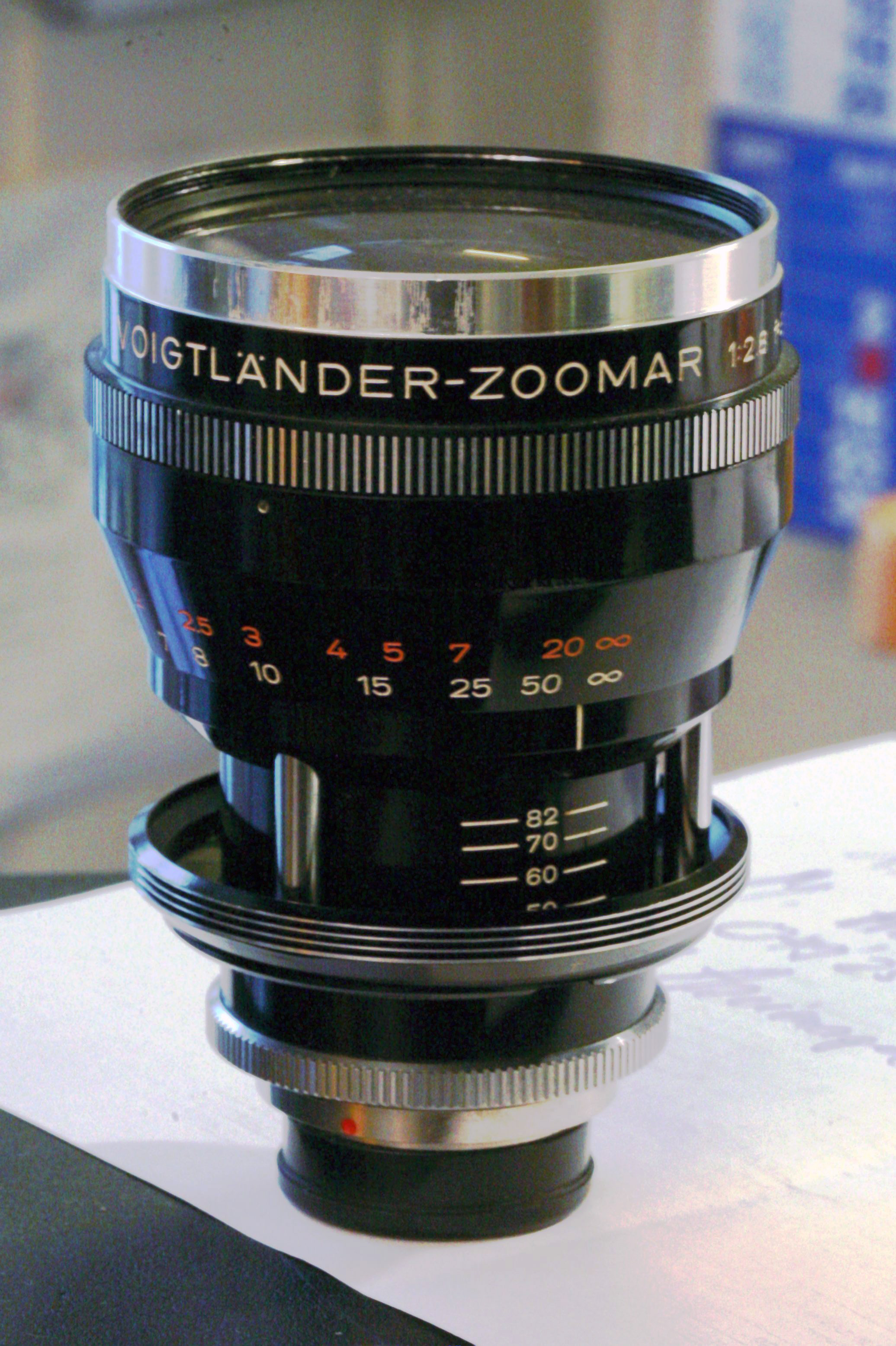 Zoomar 36mm - 82mm f/2.8, the first zoom in history